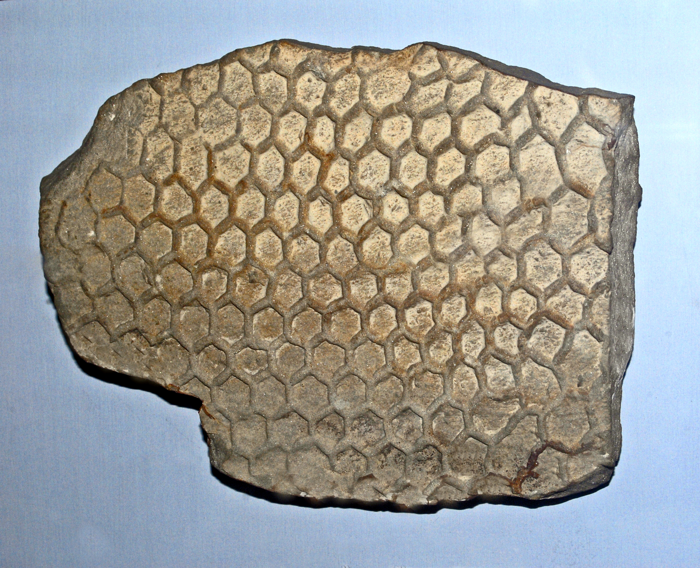 Paleodictyon from Miocene of Fiume Savio, Italy - on display at Museo Geologico G. Cappellini, Bologna